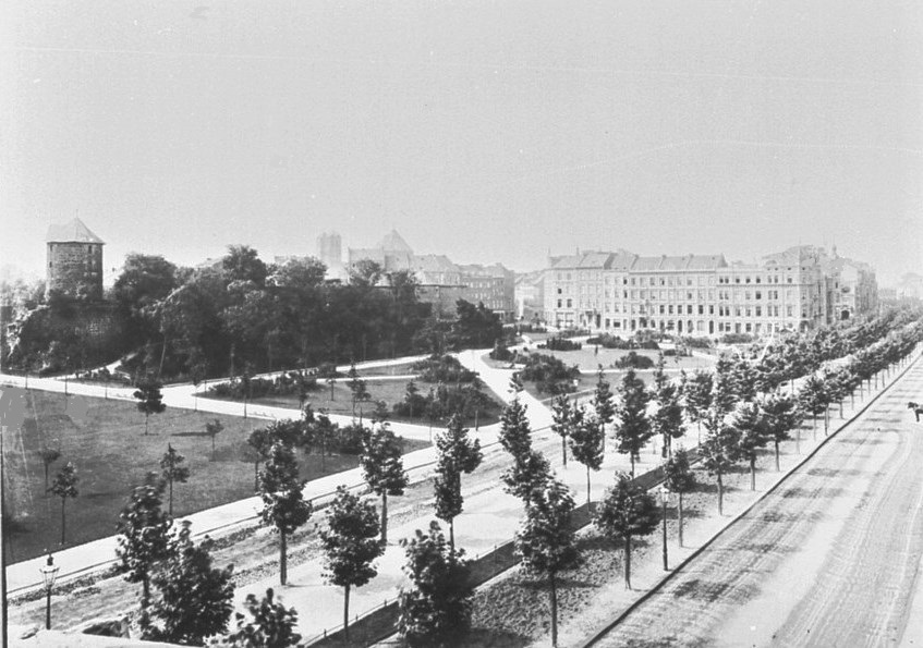 Köln - Hansaplatz (um 1886)